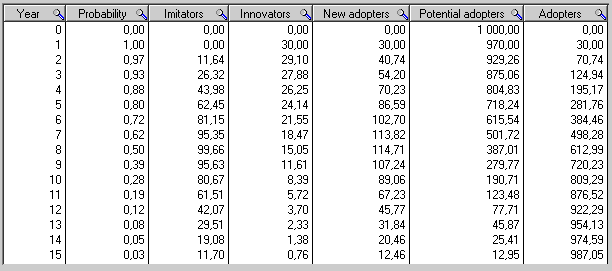 Stocks and flows values of the model Adoption. Values calculated by contributor, with software TRUE (Temporal Reasoning Universal Elaboration) True-World Model from article by John Sterman (2001) Systems dynamics modeling: tools for learning in a complex world, California management review, Vol 43 no 1, Summer 2001